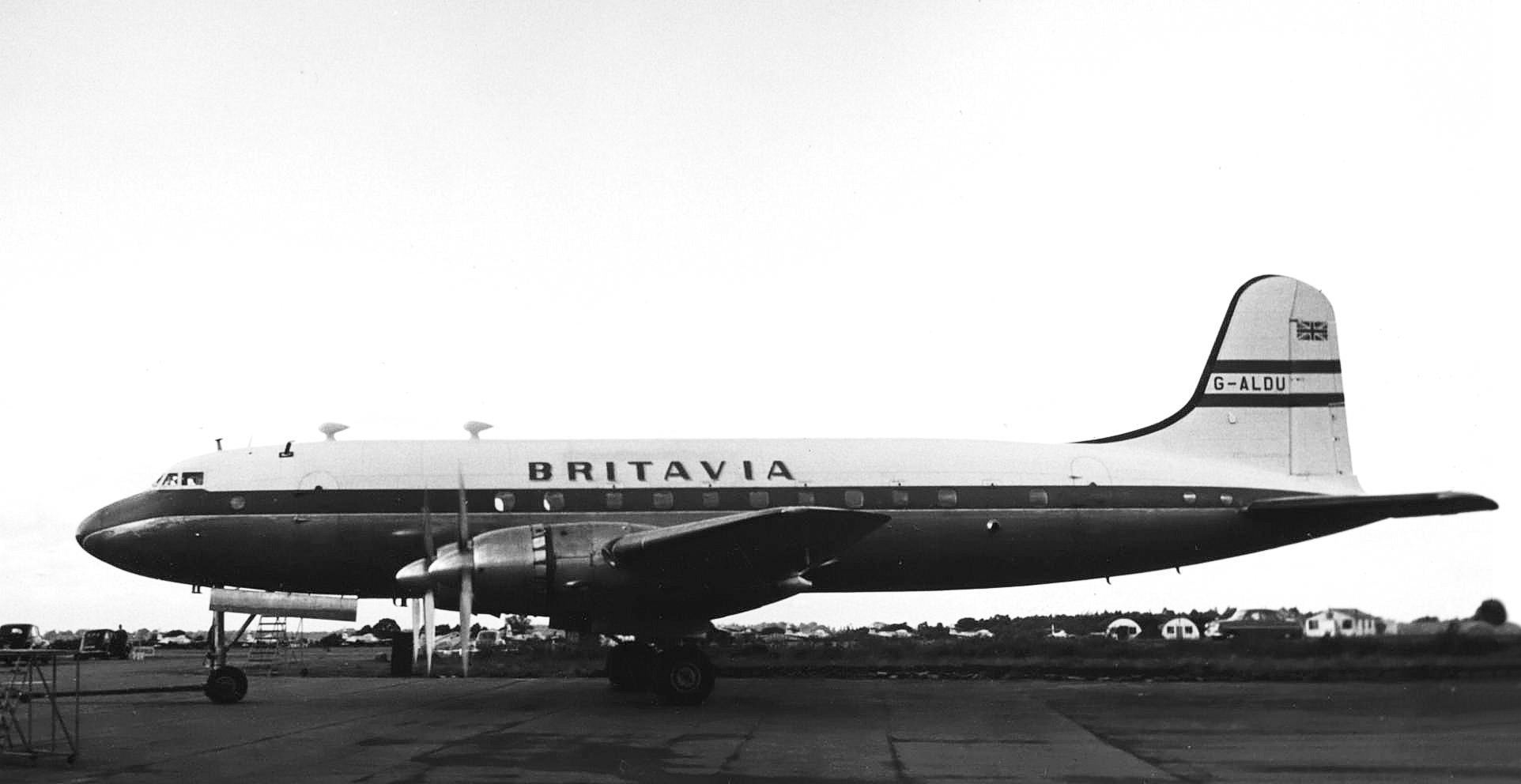 Handley Page HP.81 Hermes IV of Britavia at Blackbushe Airport, Hants, England